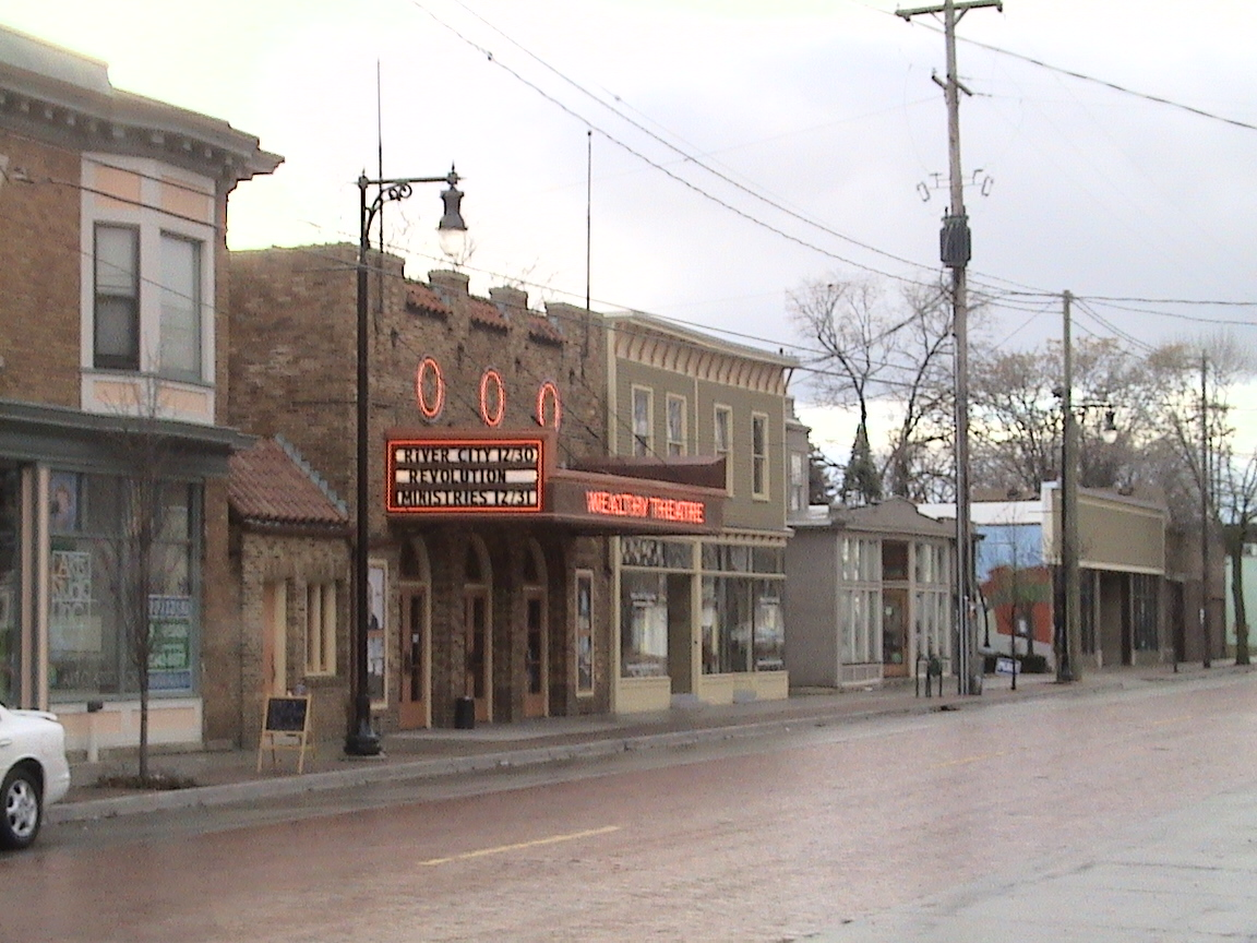 The Wealthy Street Theatre. Grand Rapids, Michigan